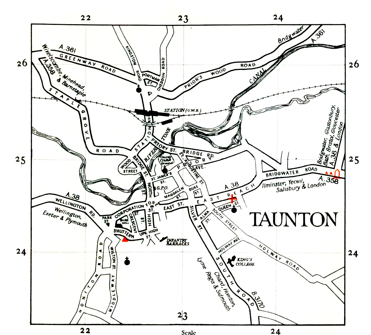 OS map of Taunton area, UK.